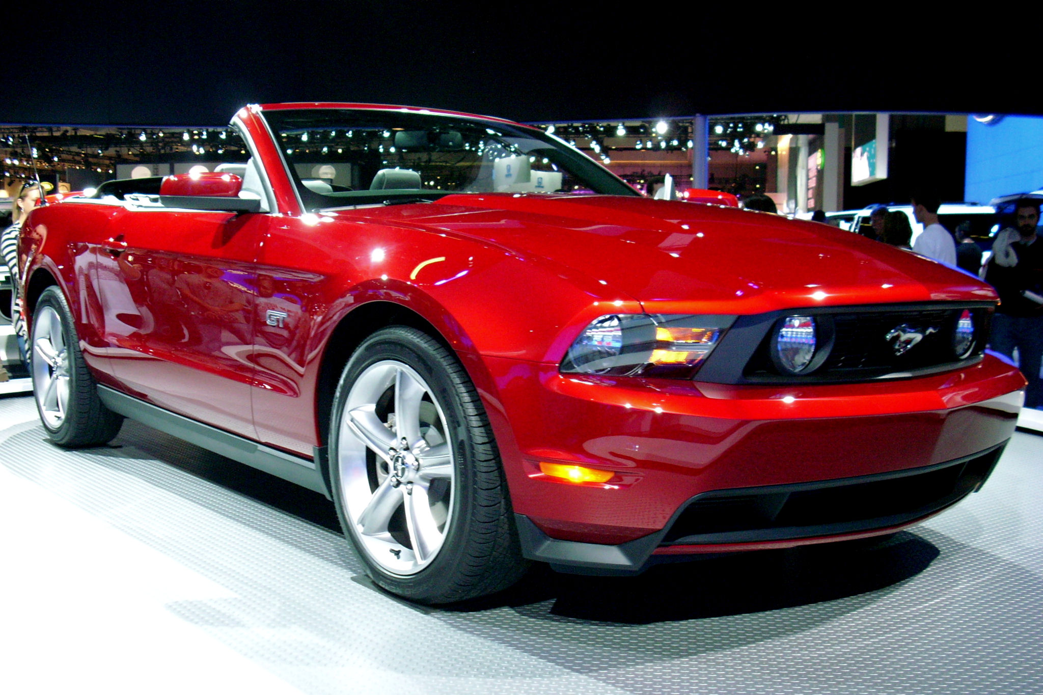 2010 Ford Mustang GT Convertible on display at the 2008 Los Angeles International Auto Show.